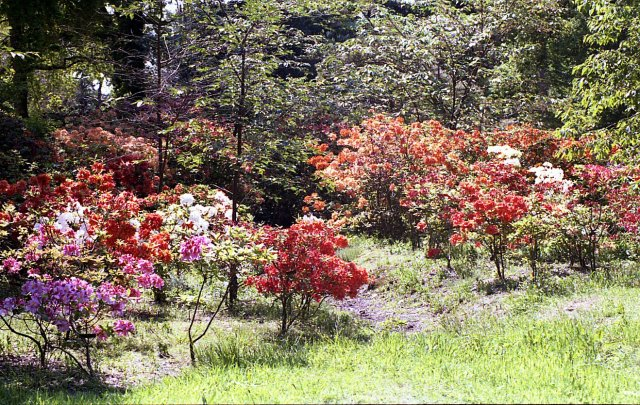 Exbury Gardens